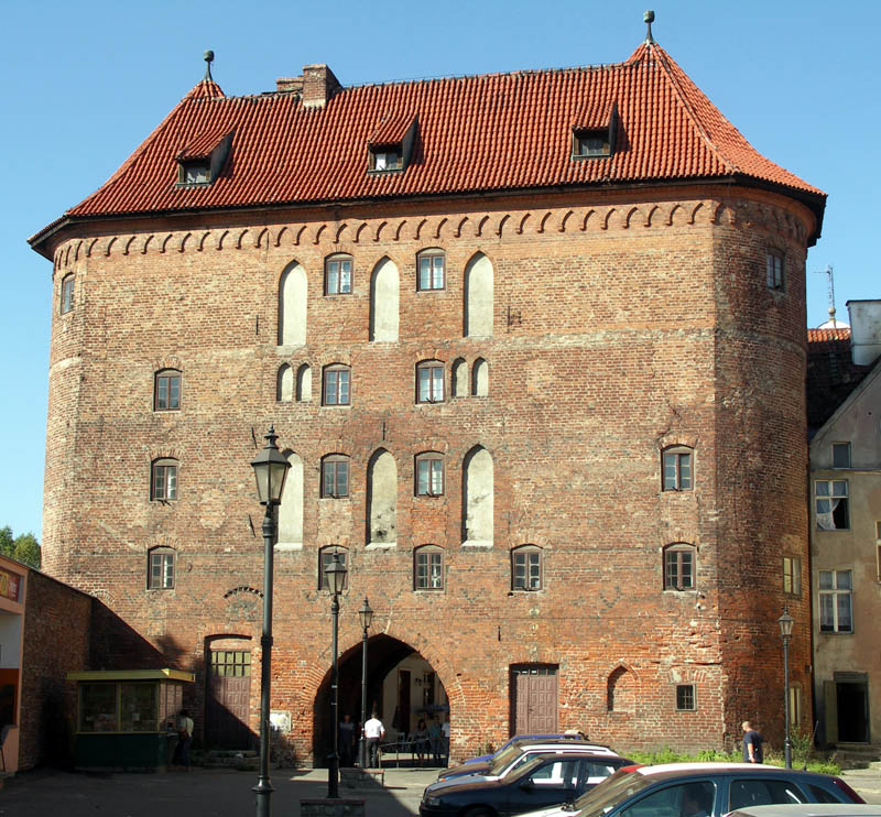 Tower in Lidzbark Warmiński